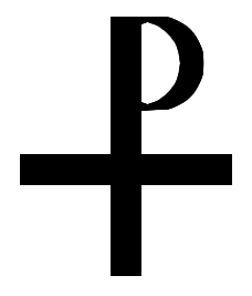 Staurogramm (modified Chi-Rho)